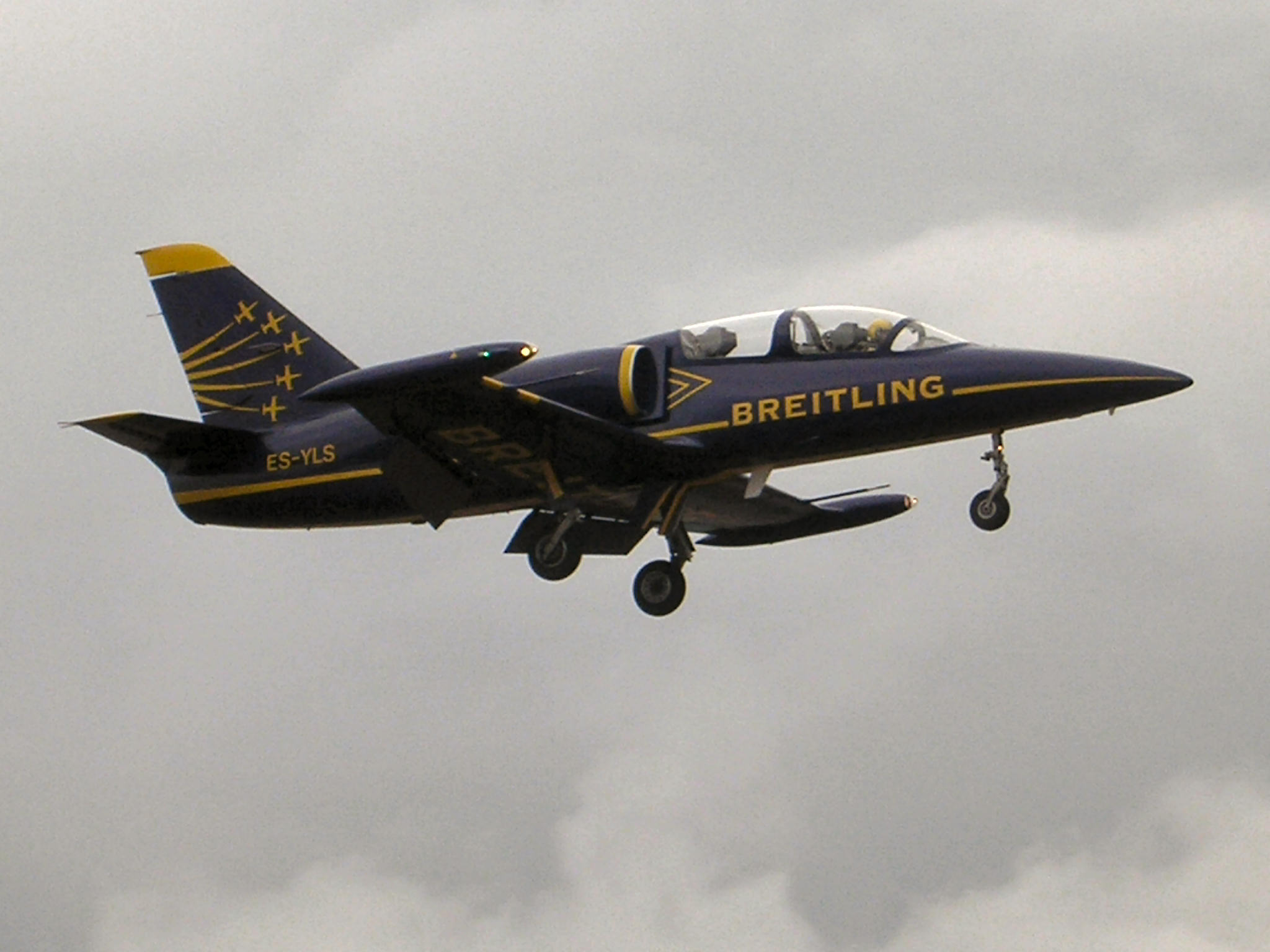 Breitling jet team, Duxford UK.